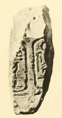 Photography of a relief showing the cartouches of Sewadjare Mentuhotep V of the late 13th dynasty, during the second intermediate period. This is the only contemporary attestation safely attributed to Mentuhotep V. The relief was found in the mortuary temple of Mentuhotep II at Deir el-Barhi.